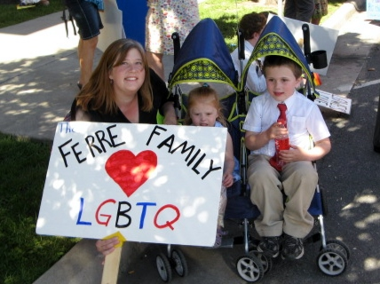 Mormons Building Bridges